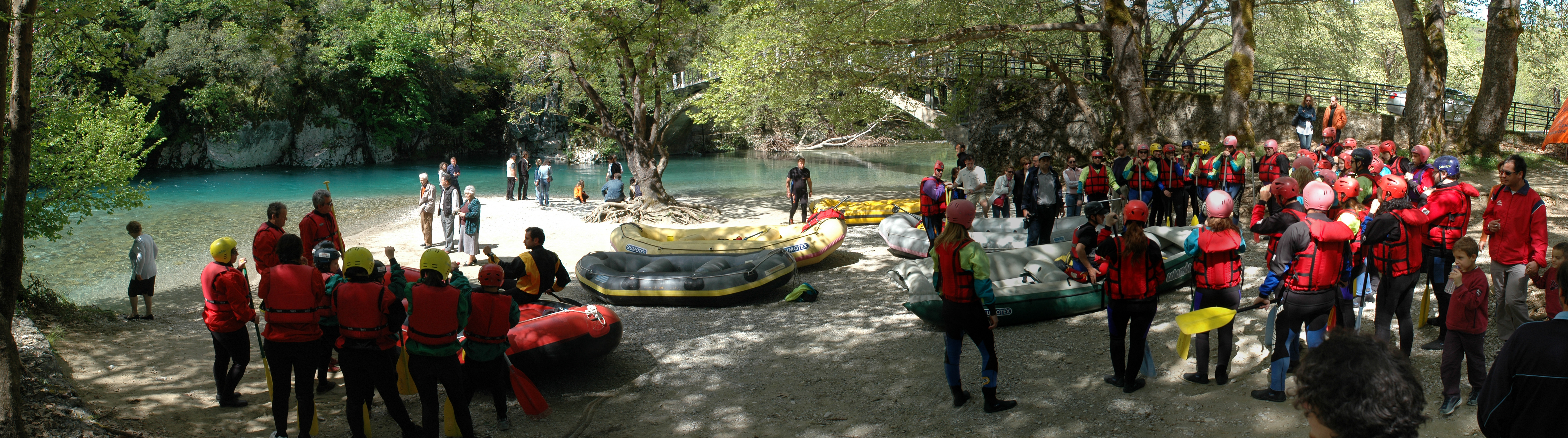 Rafters on the bank of the Voidomatis, Vikos-Aoos National Park, Greece, receiving instructions before embarking. Photo is a panorama of several individual photos. Some ghosting is visible.